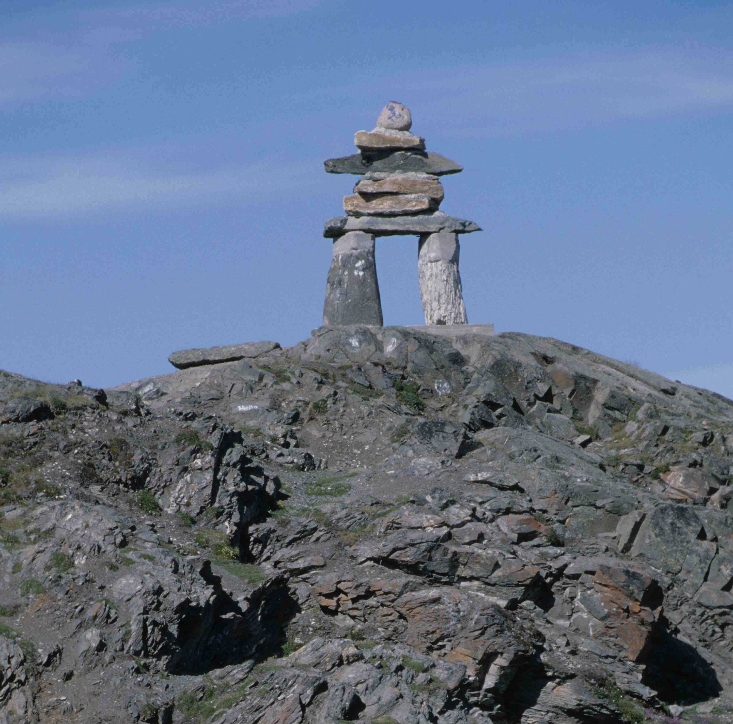 Inunnguaq (which means “like a human being”, Rankin Inlet, Nunavut, Canada